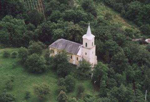 Perőcsény, Hungary, aerialphotography